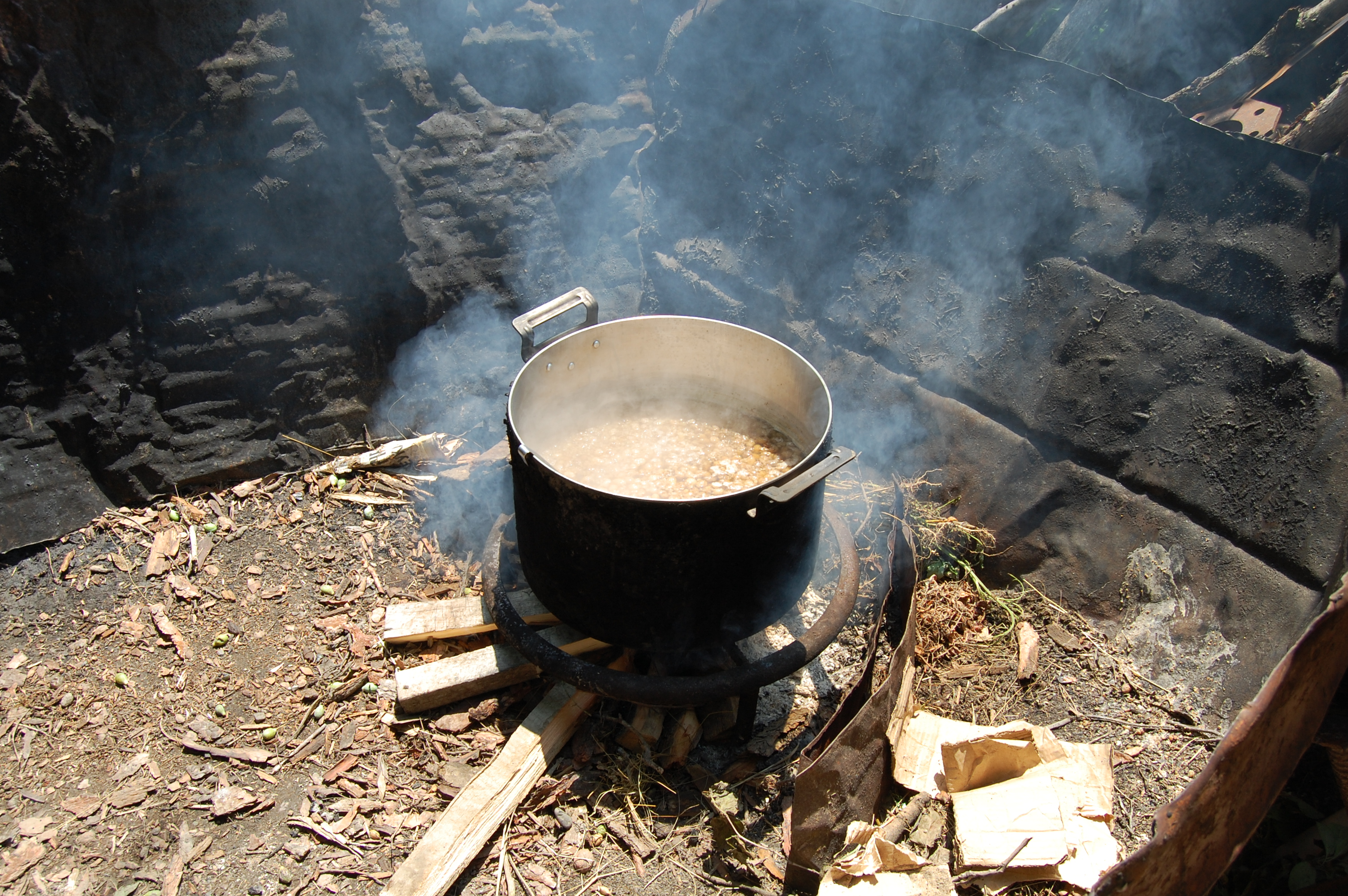 Georgian Snickers - preparation Georgia - Sakartvelo